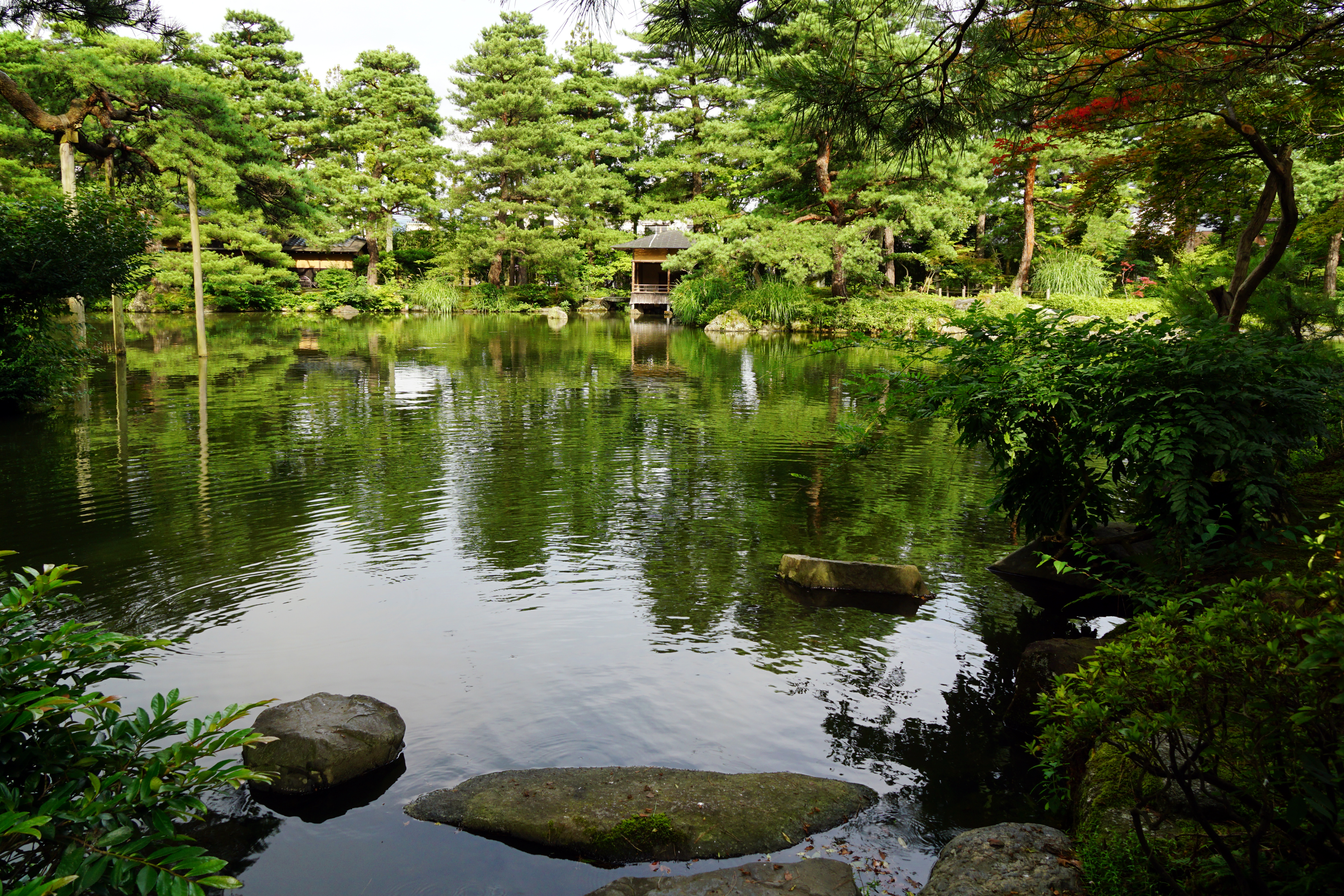 Shimizu-en in Shibata, Niigata prefecture, Japan.